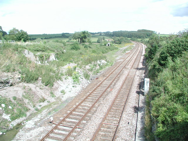 Railway Line Looking east towards Frome.